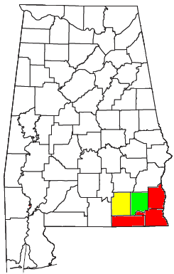 Locator map of the Dothan-Enterprise-Ozark Combined Statistical Area in the southeastern corner of the U.S. state of Alabama. The three components of the CSA are colored separately: Dothan Metropolitan Statistical Area: red Enterprise Micropolitan Statistical Area: yellow Ozark Micropolitan Statistical Area: light green